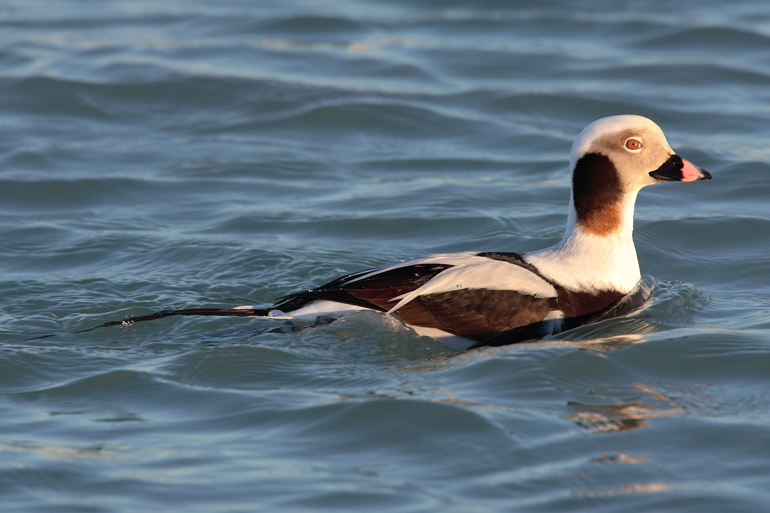 Long-tailed Duck (male) -- Cobourg, Ontario, Canada -- 2007 February